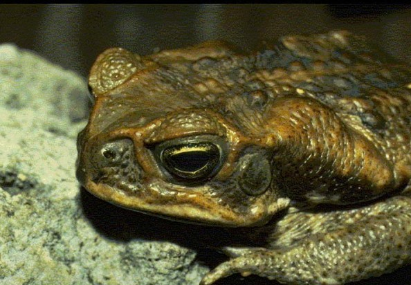 Toads imported to Guam to control the snail population have thrived on the island. Category:Images of Guam